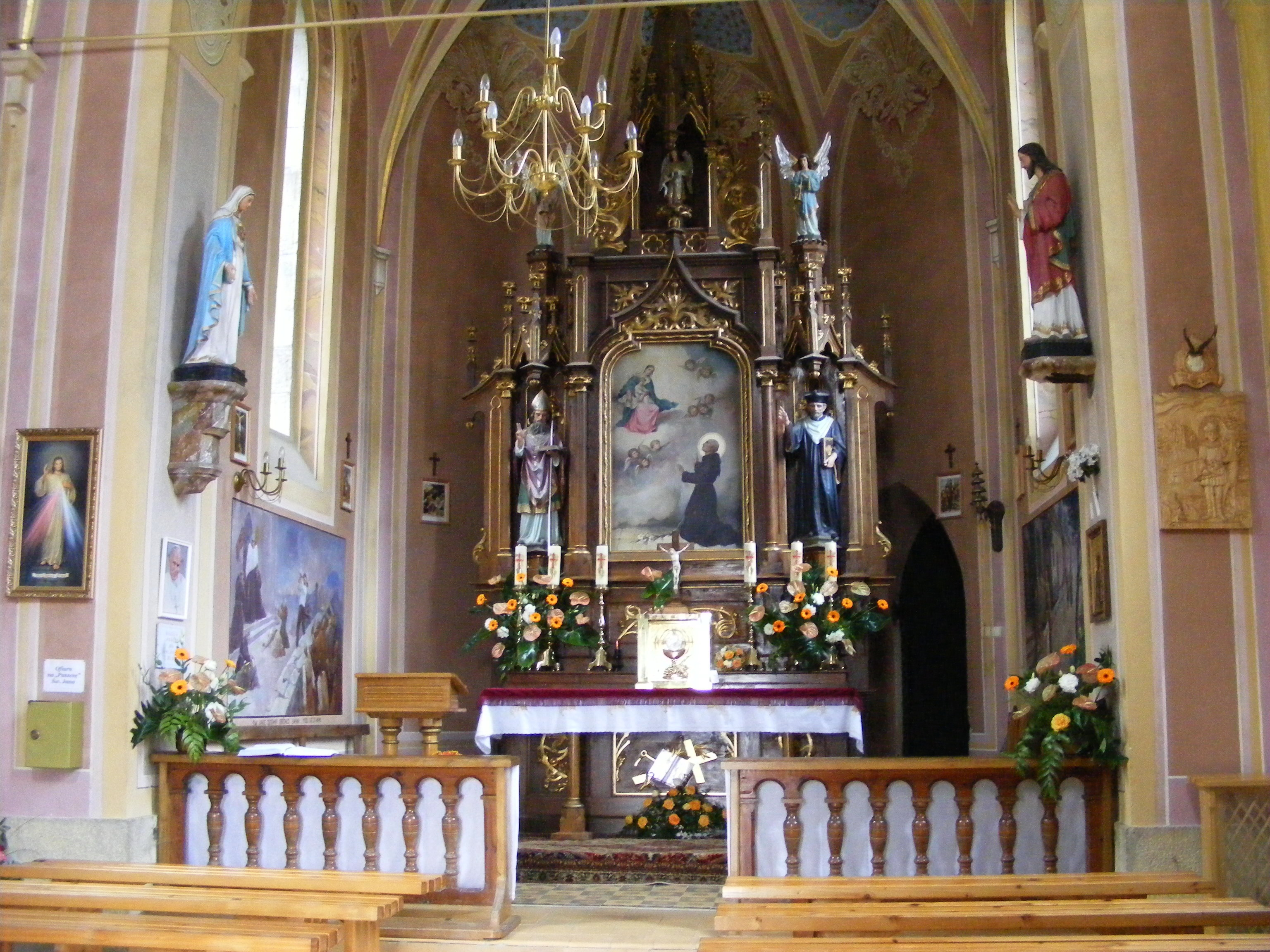 Chapel